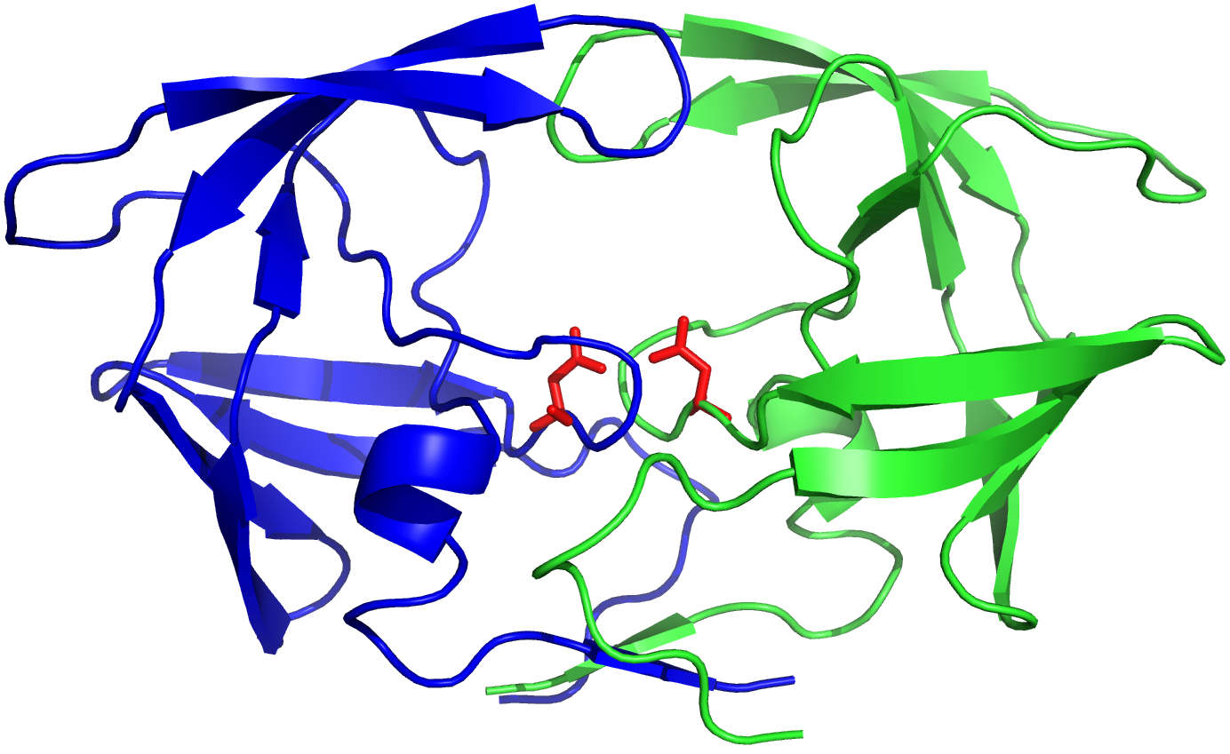 The structure of HIV-1 protease (chain A - blue, chain B - green). All water molecules and ligands are hidden. Asp-25 and Asp-25' residues are coloured red. PDB ID: 1GNO.